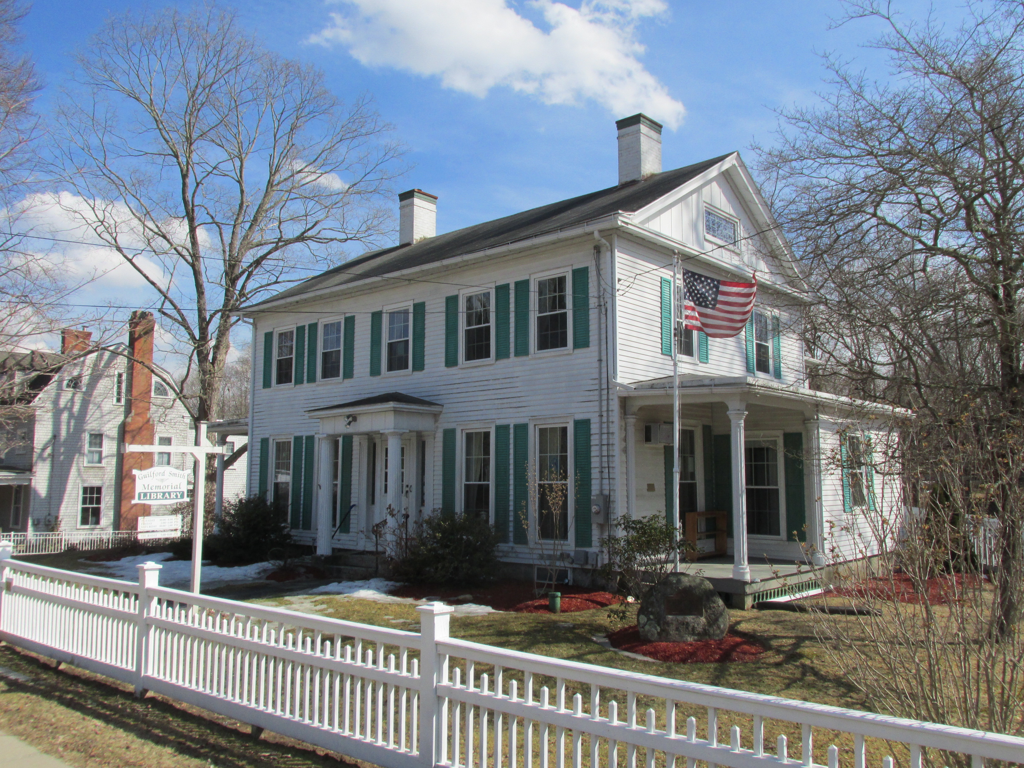 Guilford Smith Memorial Library, South Windham Connecticut - 2014